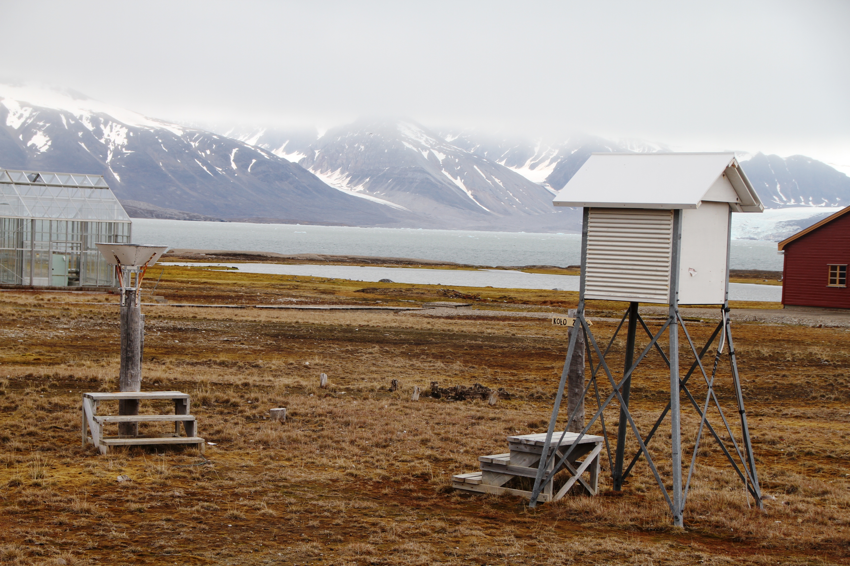 Photo from the science village of Ny-Ålesund, western Spitsbergen.